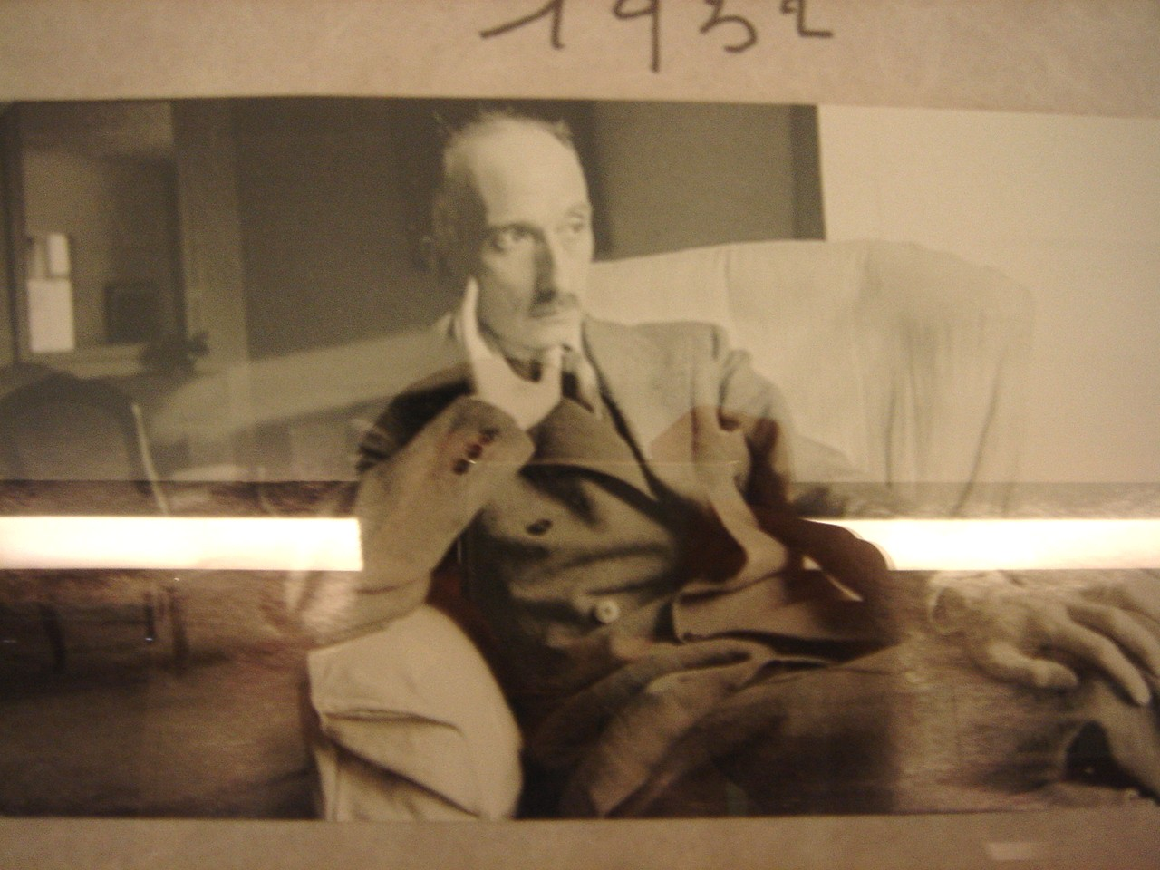 François Mauriac in 1932